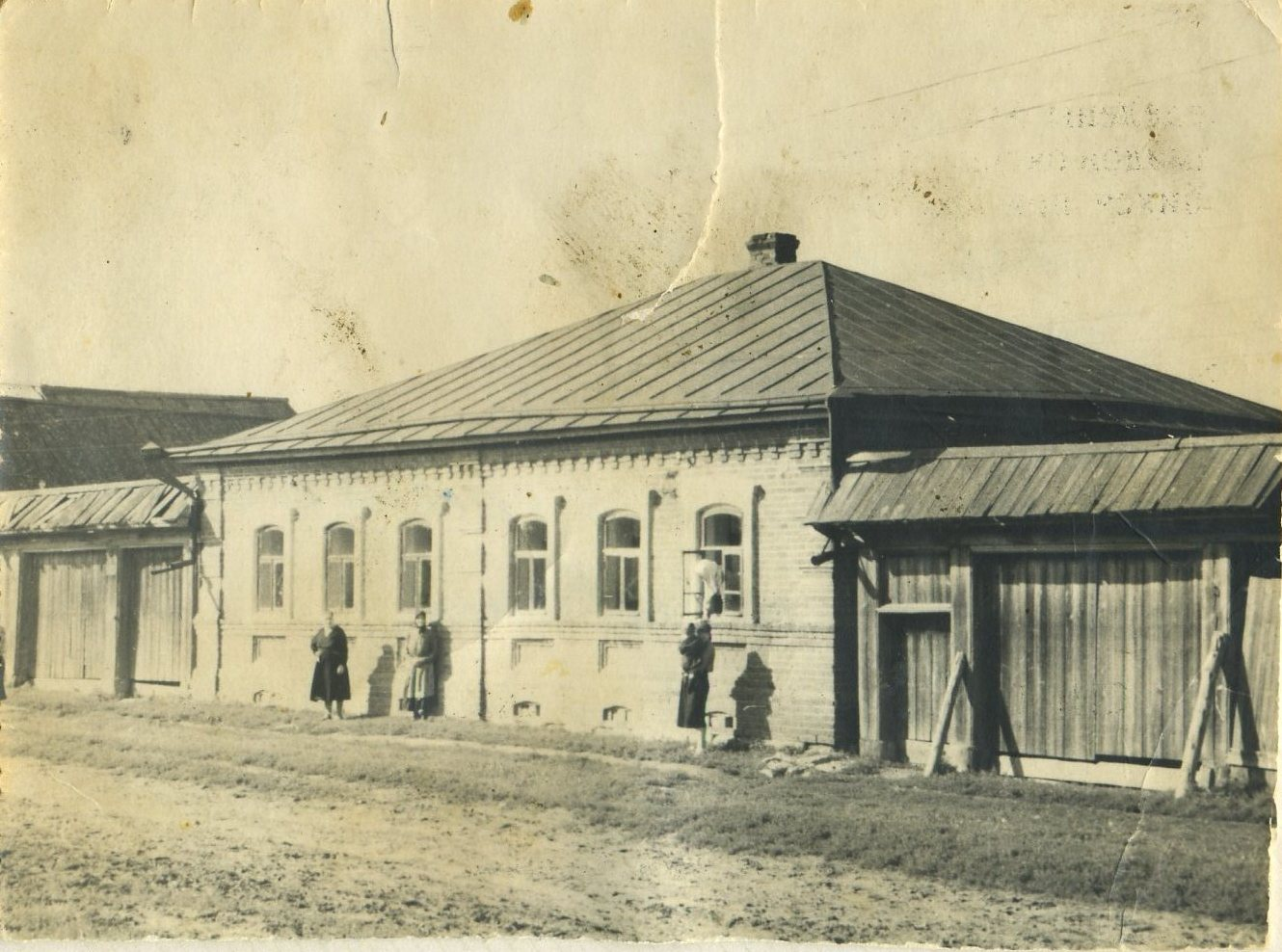 Brick house in the village Guzhavino.